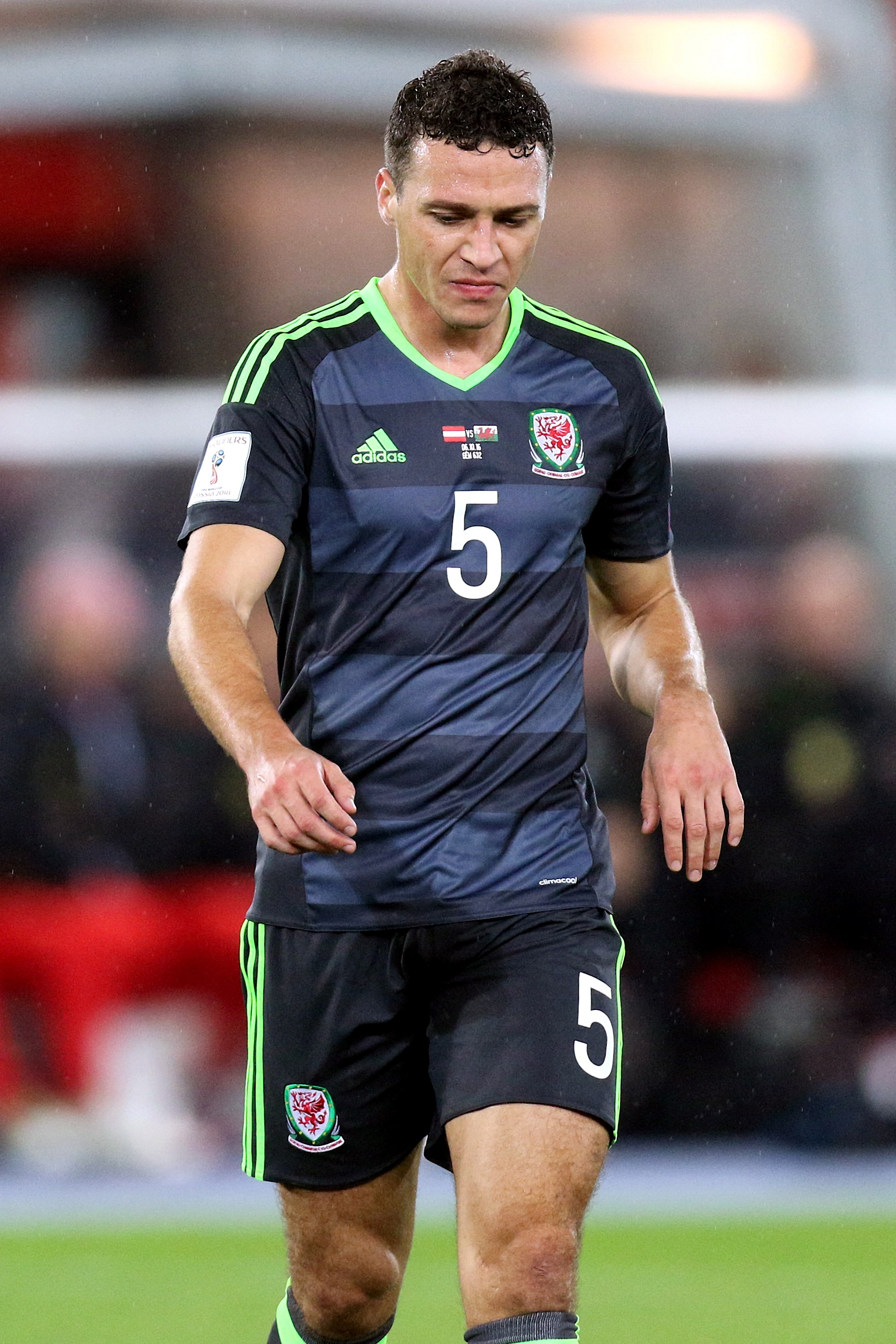 2018 FIFA World Cup qualification – UEFA Group D) – Austria (red shirts) vs. Wales (white shirts) 2-2 (1-2) – 2016-10-06 in Vienna, Ernst-Happel-Stadion – The photo shows James Chester.